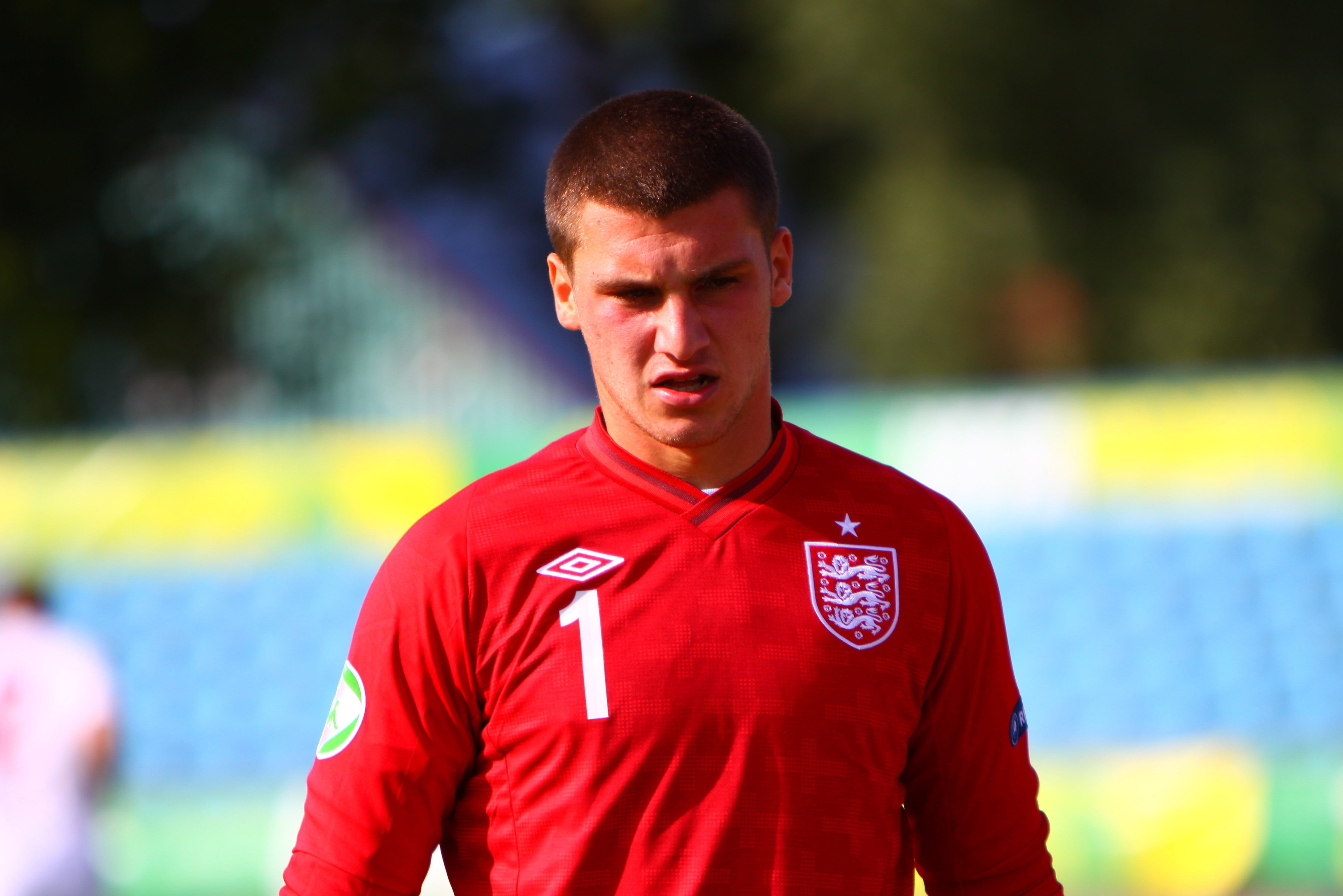 Sam Johnstone playing for England U-19